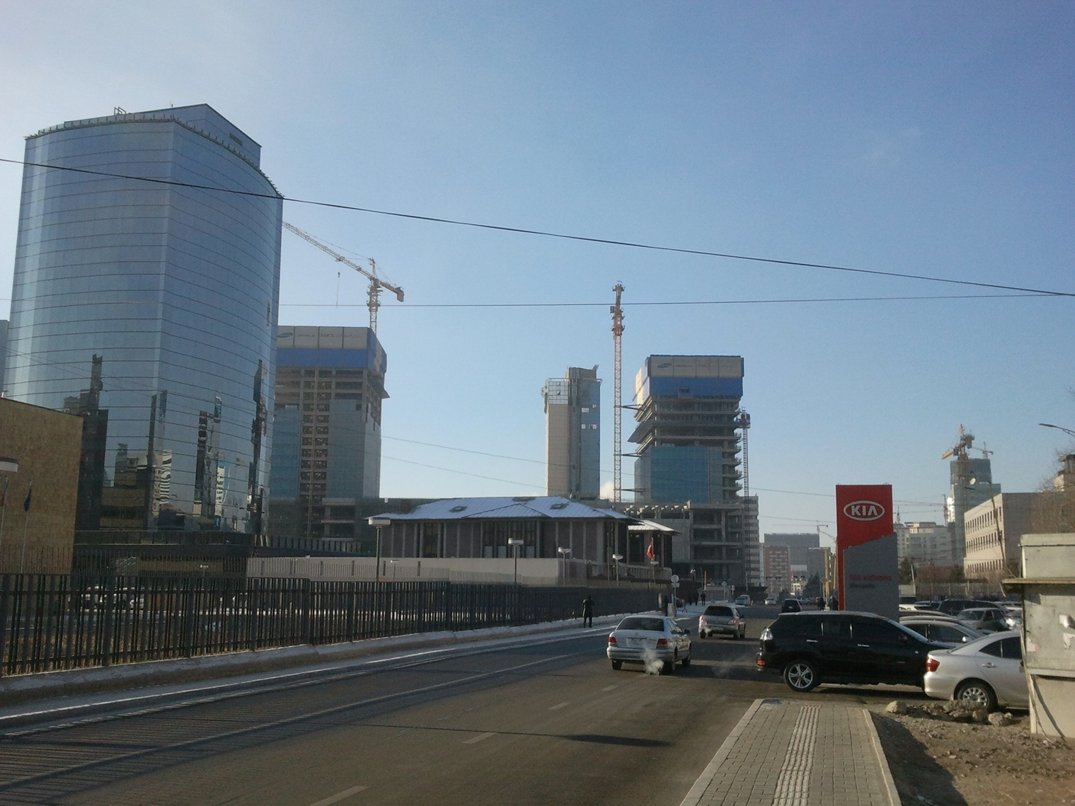 Ulaanbaatar, Mongolia - Embassy area. Turkish embassy (center pink building), Japanese embassy (far right). Shangri-La hotel under construction in the center. Diplomat apartment far left glass tower.